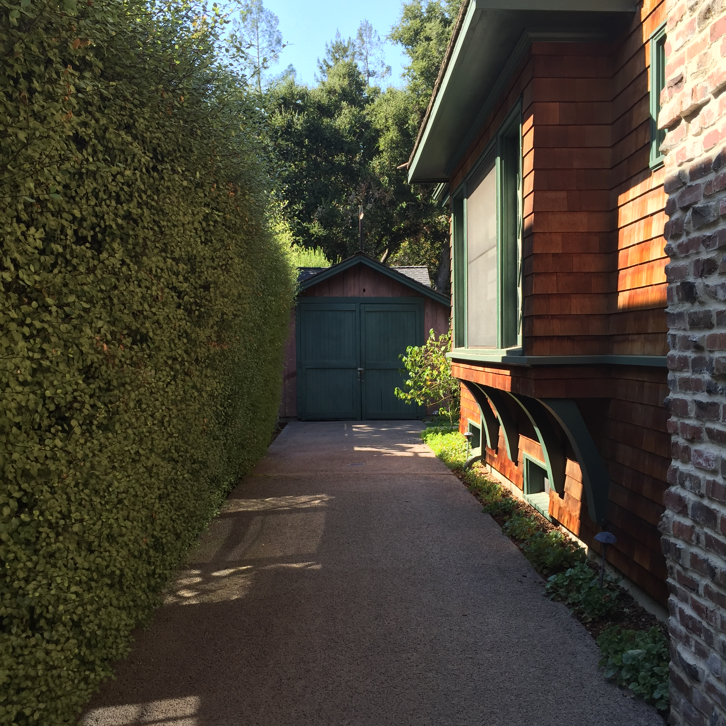 This picture shows a garage, which is now recognized as the birthplace of the Silicon Valley, photographed on September 5, 2016 by Zinaida Good. William R. Hewlett and David Packard started developing their audio oscillator in this garage in 1938.